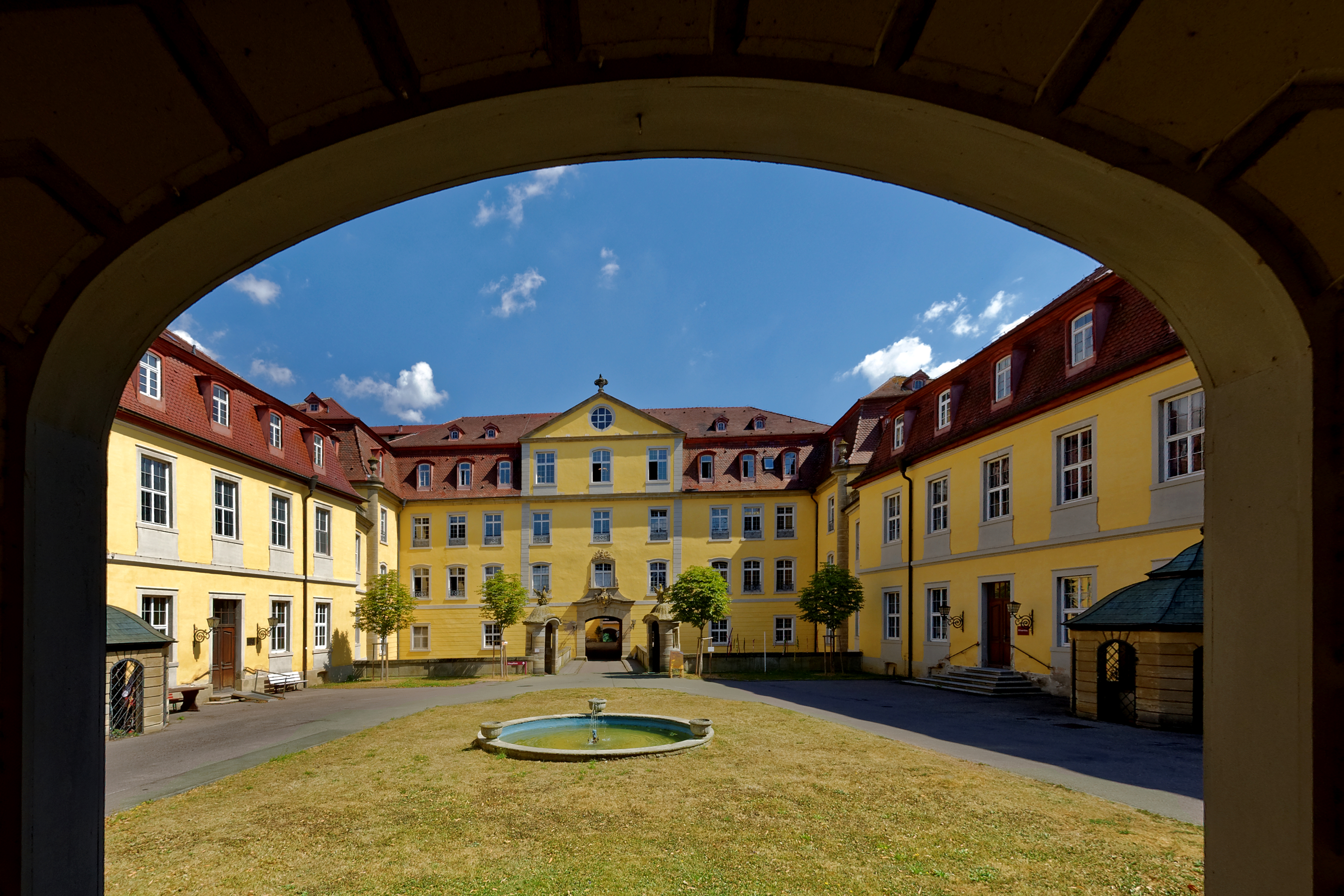 Kirchberg an idyllic small town on the Jagst River